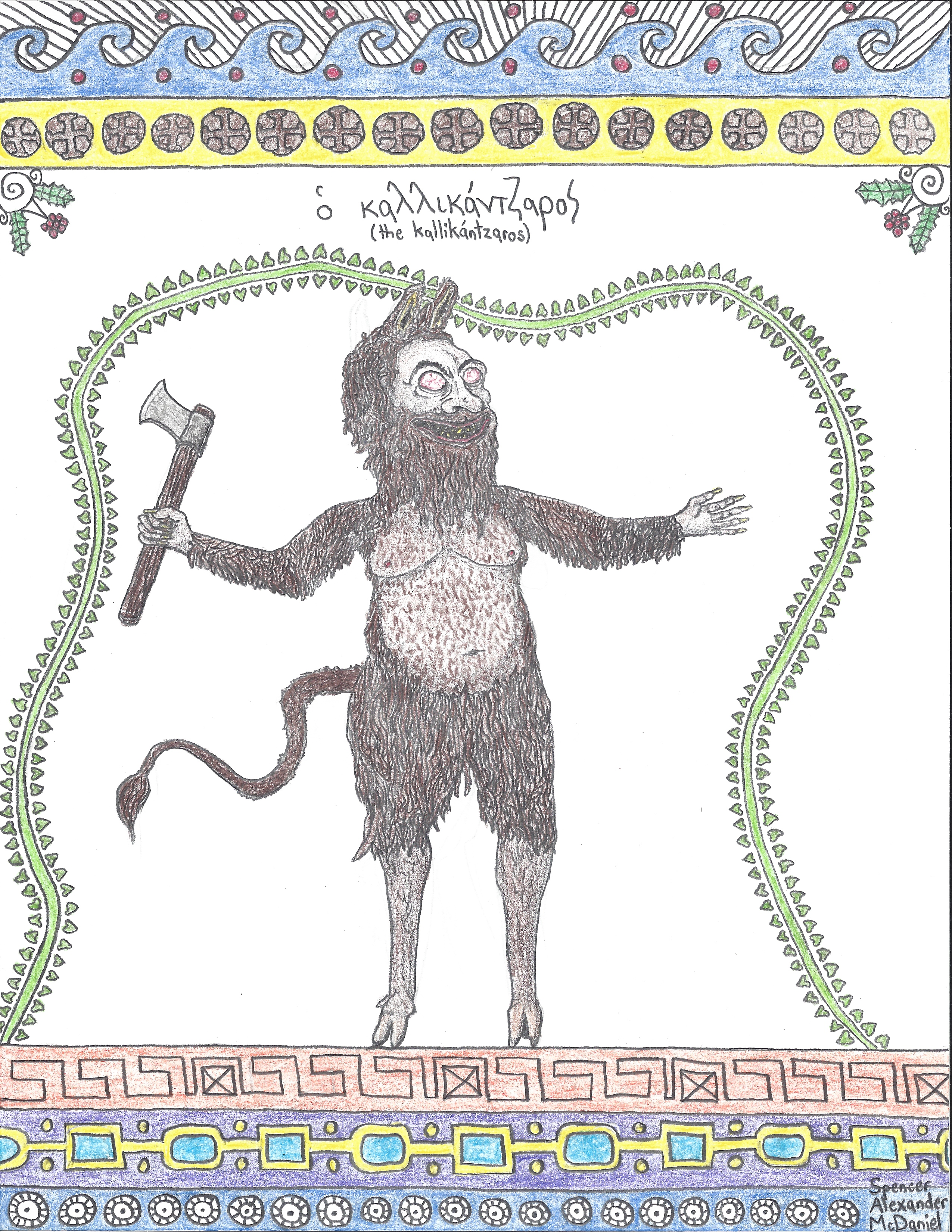 This is a pencil illustration of a kallikantzaros, a kind of goblin-like creature from modern Greek folklore, drawn by Spencer Alexander McDaniel. This illustration was started in late January 2020 and completed in mid-March 2020. This particular illustration is based on various older Greek and non-Greek depictions of kallikantzaroi. It also draws significant inspiration from various depictions of satyrs in ancient Greek red-figure pottery. Most of the patterns shown both beneath and above the kallikantzaros are loosely based on patterns from ancient Greek pottery and Byzantine mosaics. A few Christmas motifs (i.e. the holly in the upper left and right-hand corners and the christopsomo pattern at the top) are included because, in Greek folklore, kallikantzaroi are said to come out during the Twelve Days of Christmas.